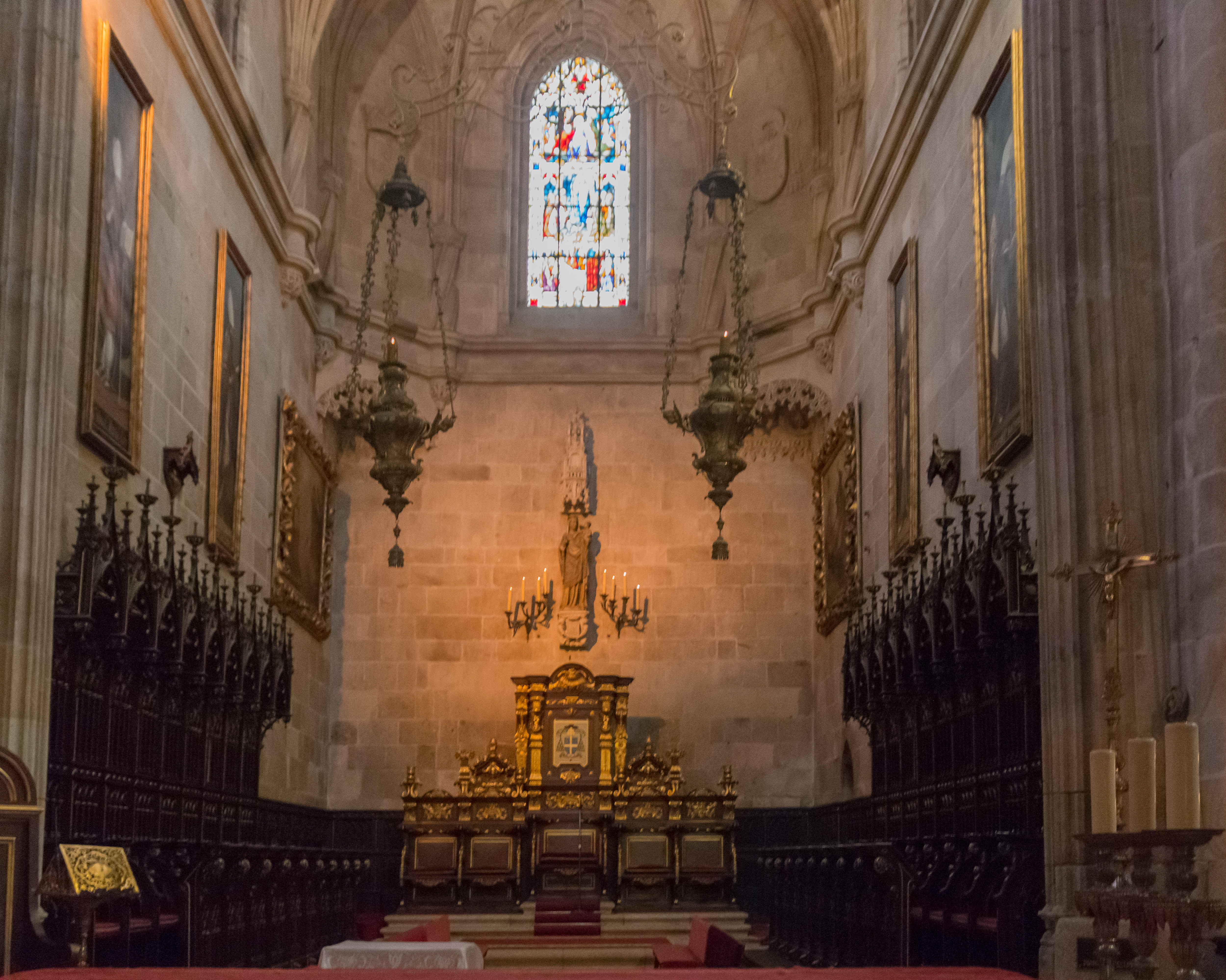 Stalls and High-altar for the,Tridentine Mass. This monument is classified as Monumento Nacional.